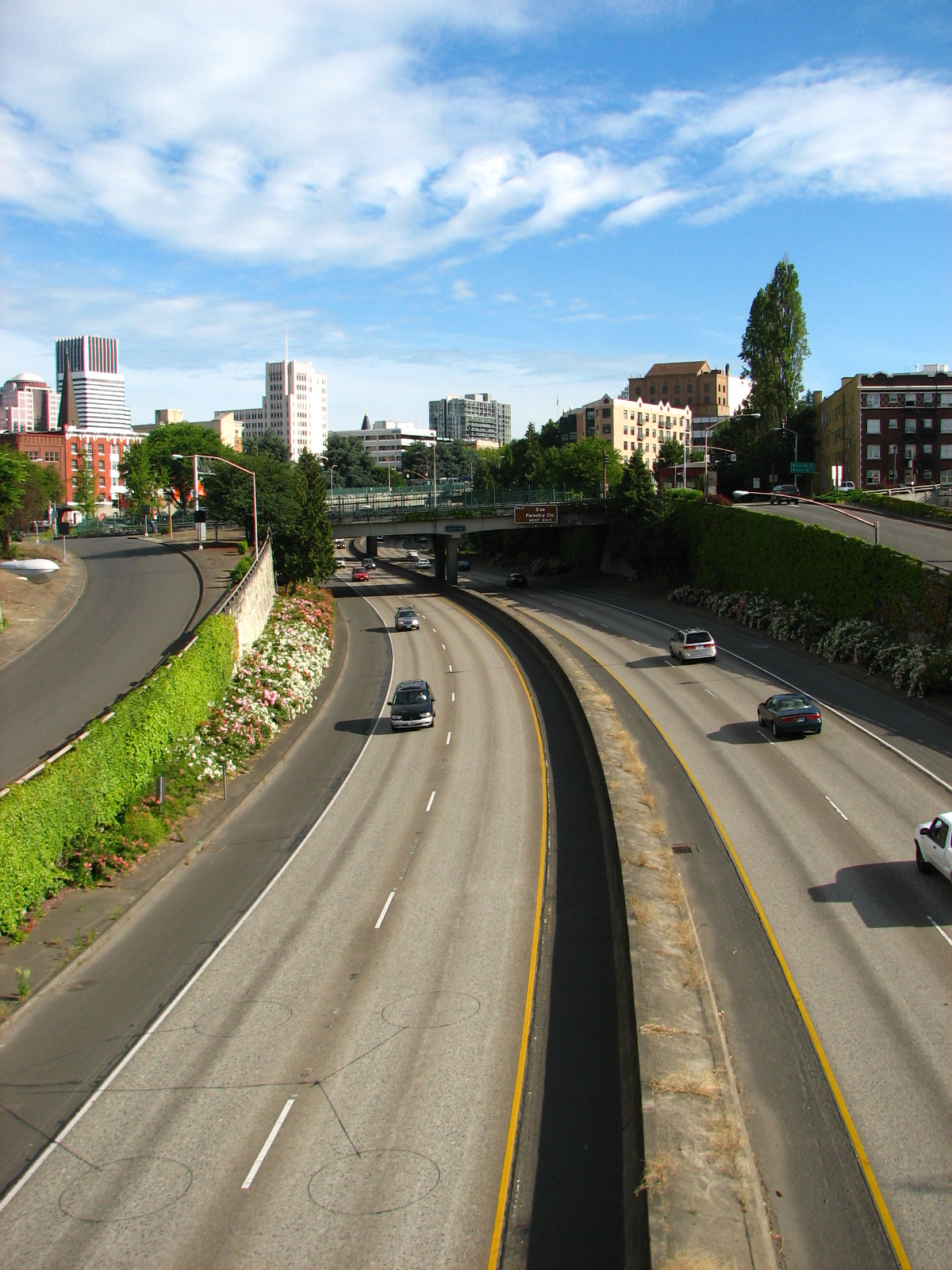 Interstate 405 in downtown Portland, Oregon, United States. Taken from the Northwest Everett Street overpass.